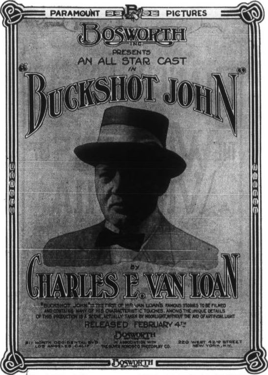 Advertisement for the American western film Buckshot John (1915) with Hobart Bosworth, on page 25 of the February 6, 1915 Variety.